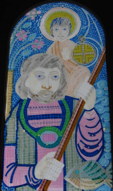 Mosaic window in St Christopher's parish church, Warlingham, Surrey The east window of 358344 created in the 1960's in an unusual technique of mosaic sized pieces of coloured plastic film between acrylic sheets. Artist unknown.